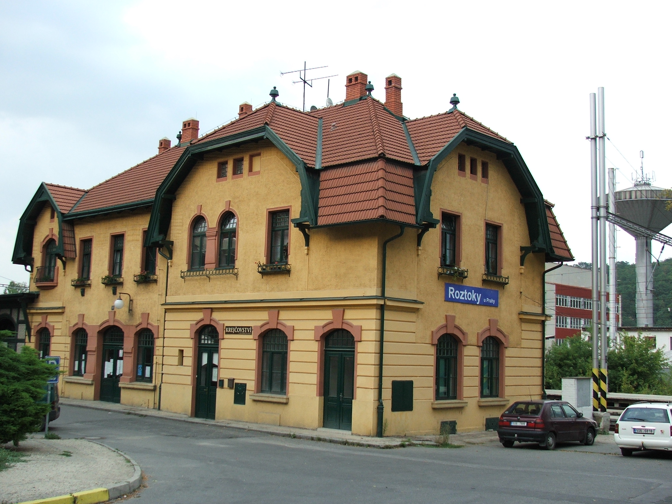 Train station in Roztoky near Prague, Czechia